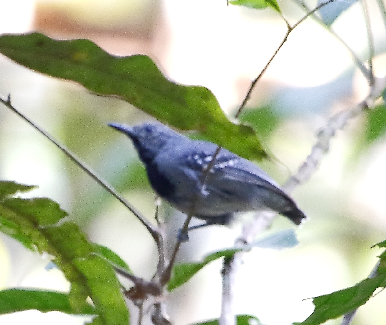 Long-winged antwren (male) at Floresta Nacional de Carajás - Pará - Brazil